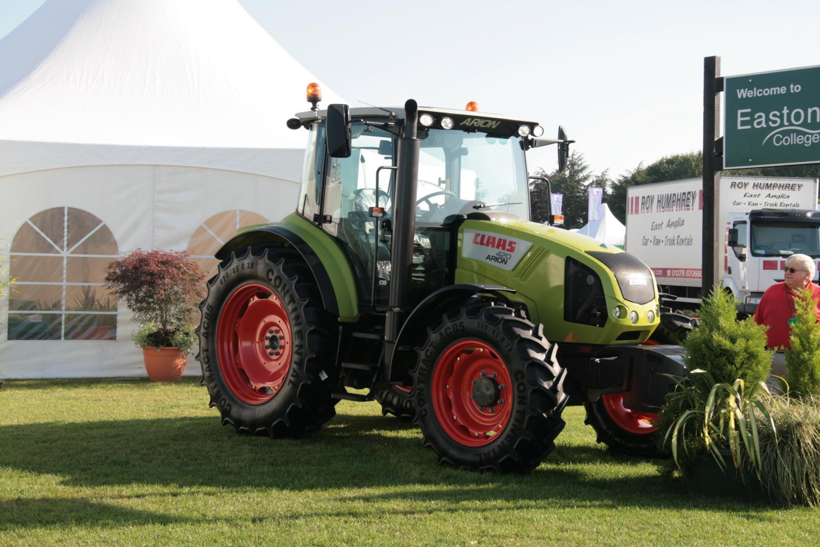 A Claas Arion 420 tractor on display at the Royal Norfolk Show 2011. – Day one and the sun is out. The barometer is set fair and temperatures are soon in the 20's as thousands pour through the gates for Britain's largest two day farming event. The Royal Norfolk Show is the largest two-day agricultural show in the country.